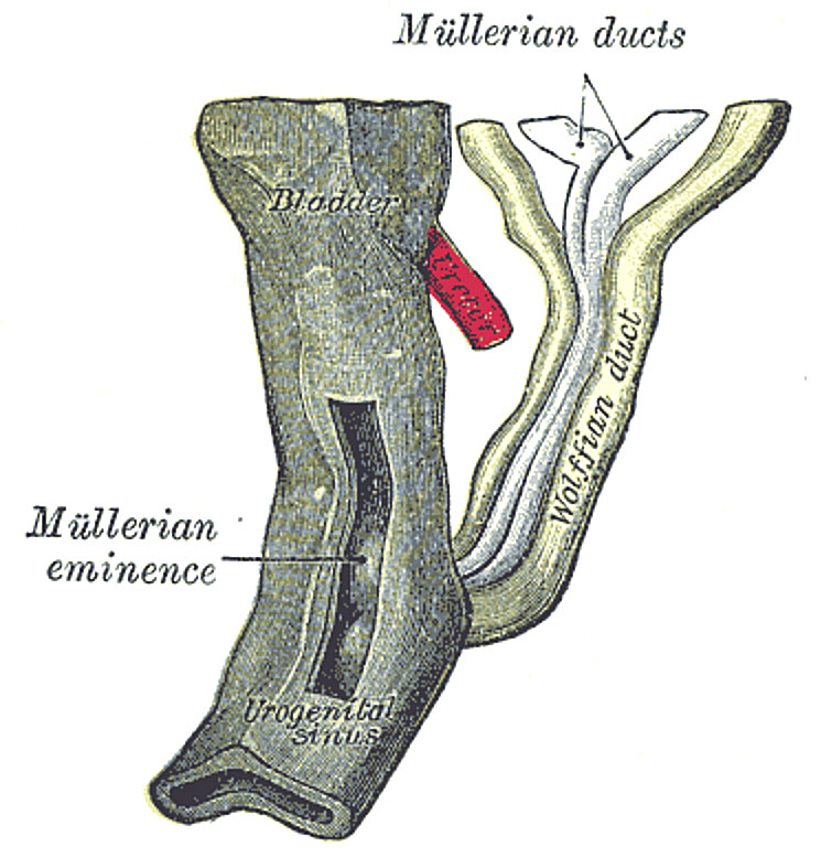 Urogenital sinus of female human embryo of eight and a half to nine weeks old. (From model by Keibel)